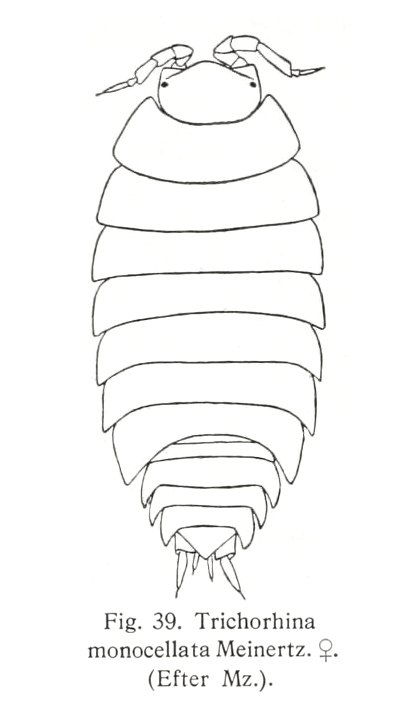 Scientific line drawing of Trichorhina monocellata, synonym of Trichorhina tomentosa, a species of isopod